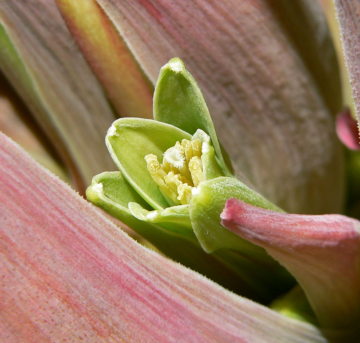 Beschorneria yuccoides ssp. yuccoides at the University of California Botanical Garden, Berkeley, California